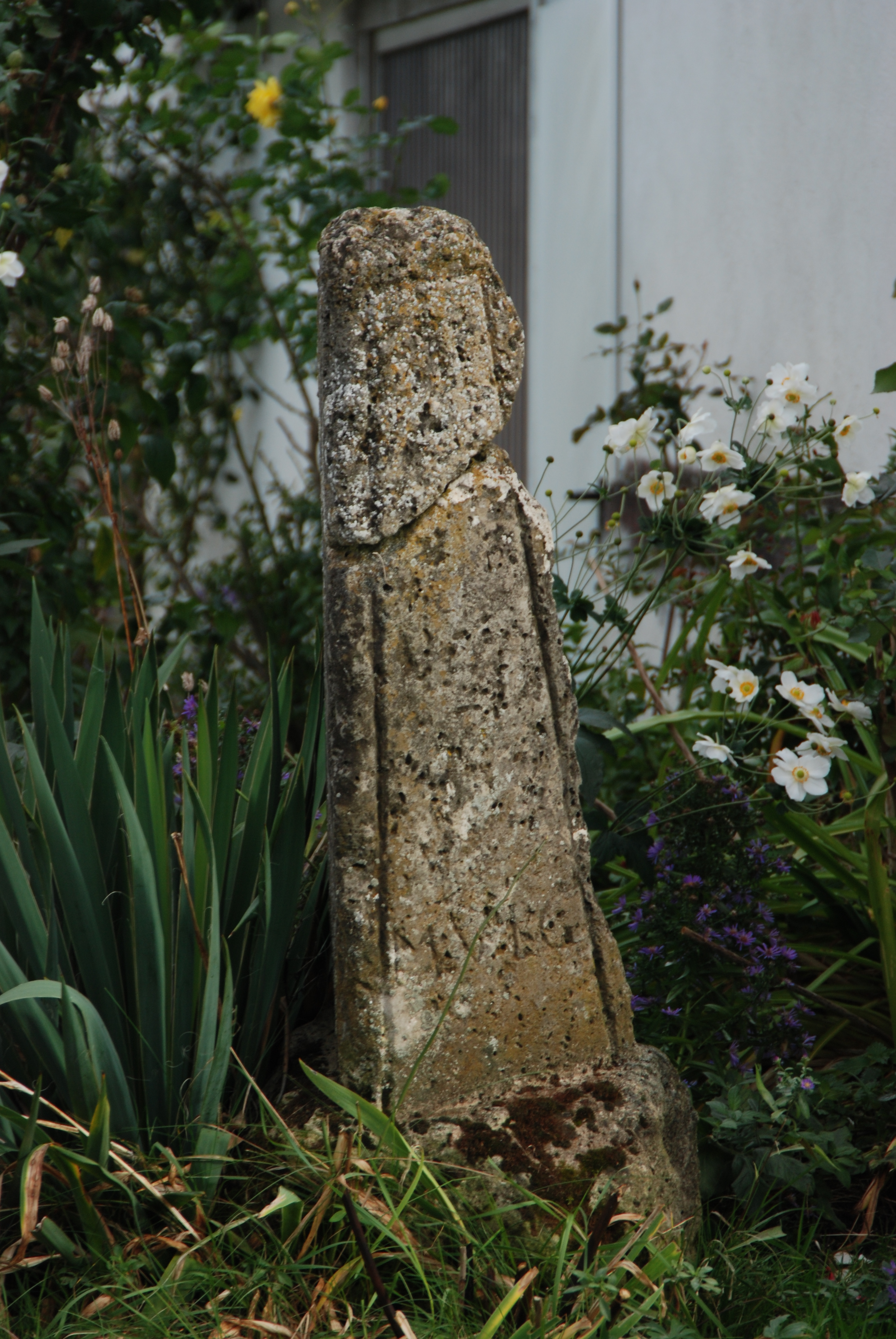 Law and Order Monument Fürstenfeld